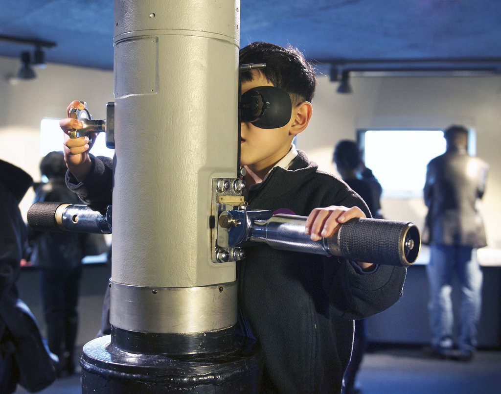 A child uses the WWII-era TANG periscope in MOHAI's Maritime Gallery during the MOHAI Grand Opening on Dec. 29, 2012.